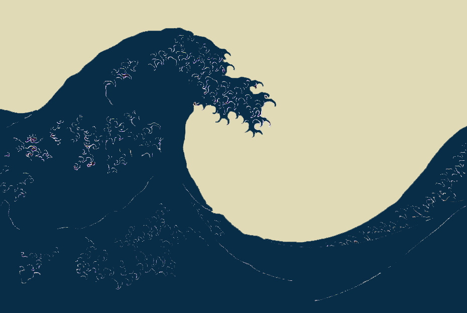 From Image:Tsunami by hokusai 19th century.jpg